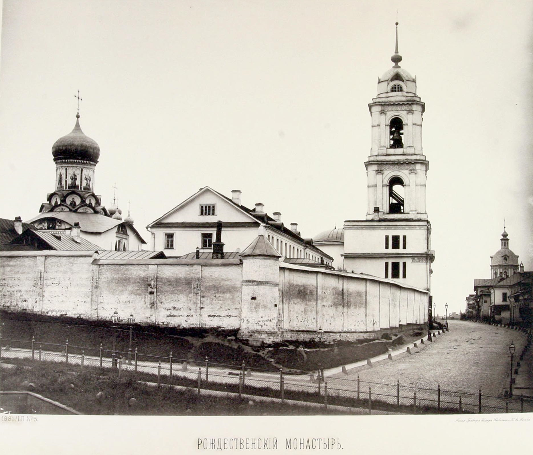 Nativity Convent, Moscow (view from the boulevard).